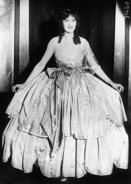 Agnès Souret in London after her election in 1920 as the first Miss France.